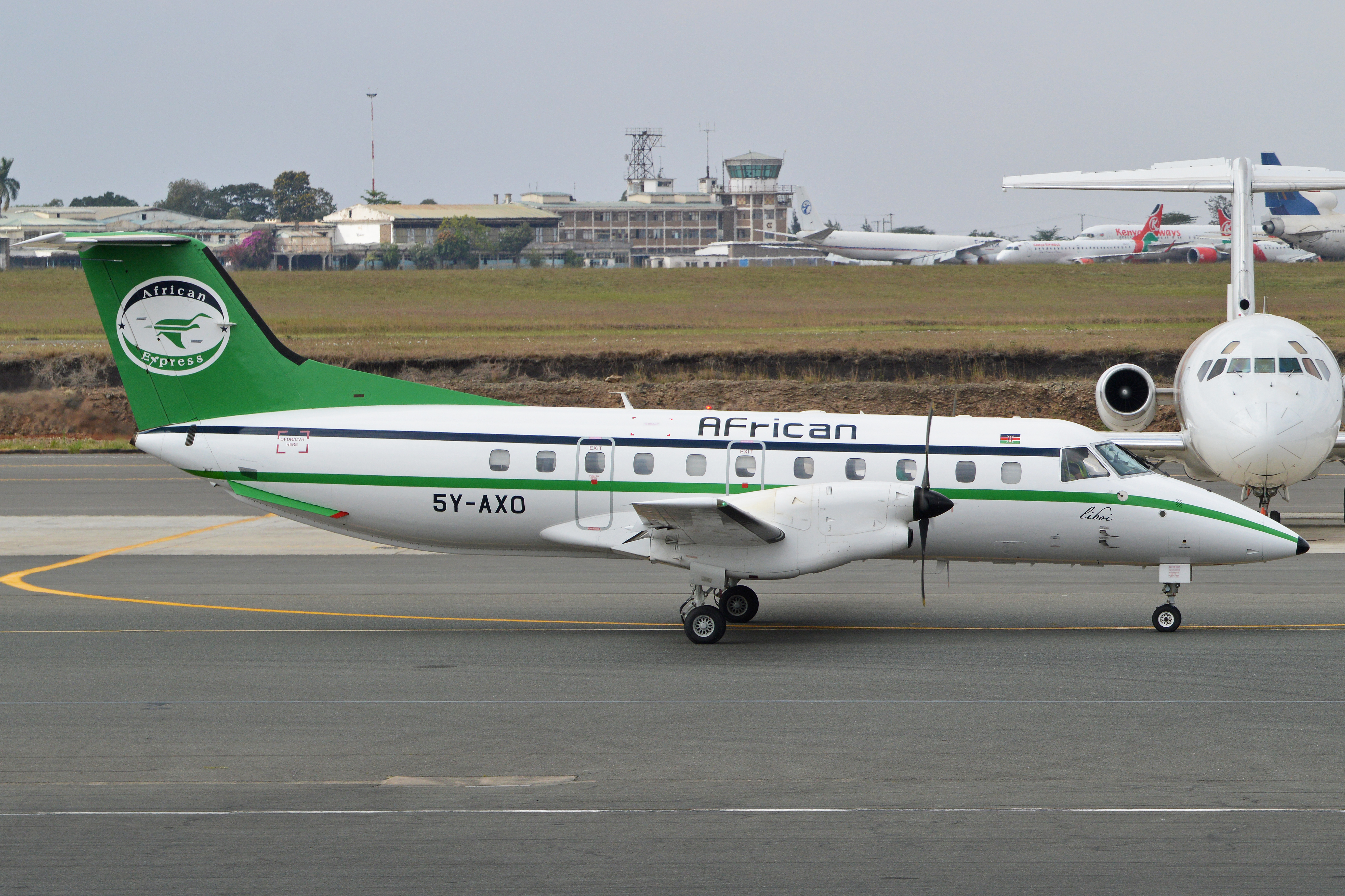 Reported as c/n 120087, although this is also listed as being 5Y-AXJ which was also seen on this day. Seen taxiing at Nairobi's Jomo Kenyatta International Airport, Kenya. 26-9-2014